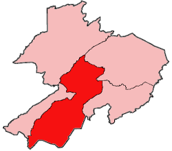 Map of Gbarpolu County, Liberia showing Bopolu District; created with the GIMP.